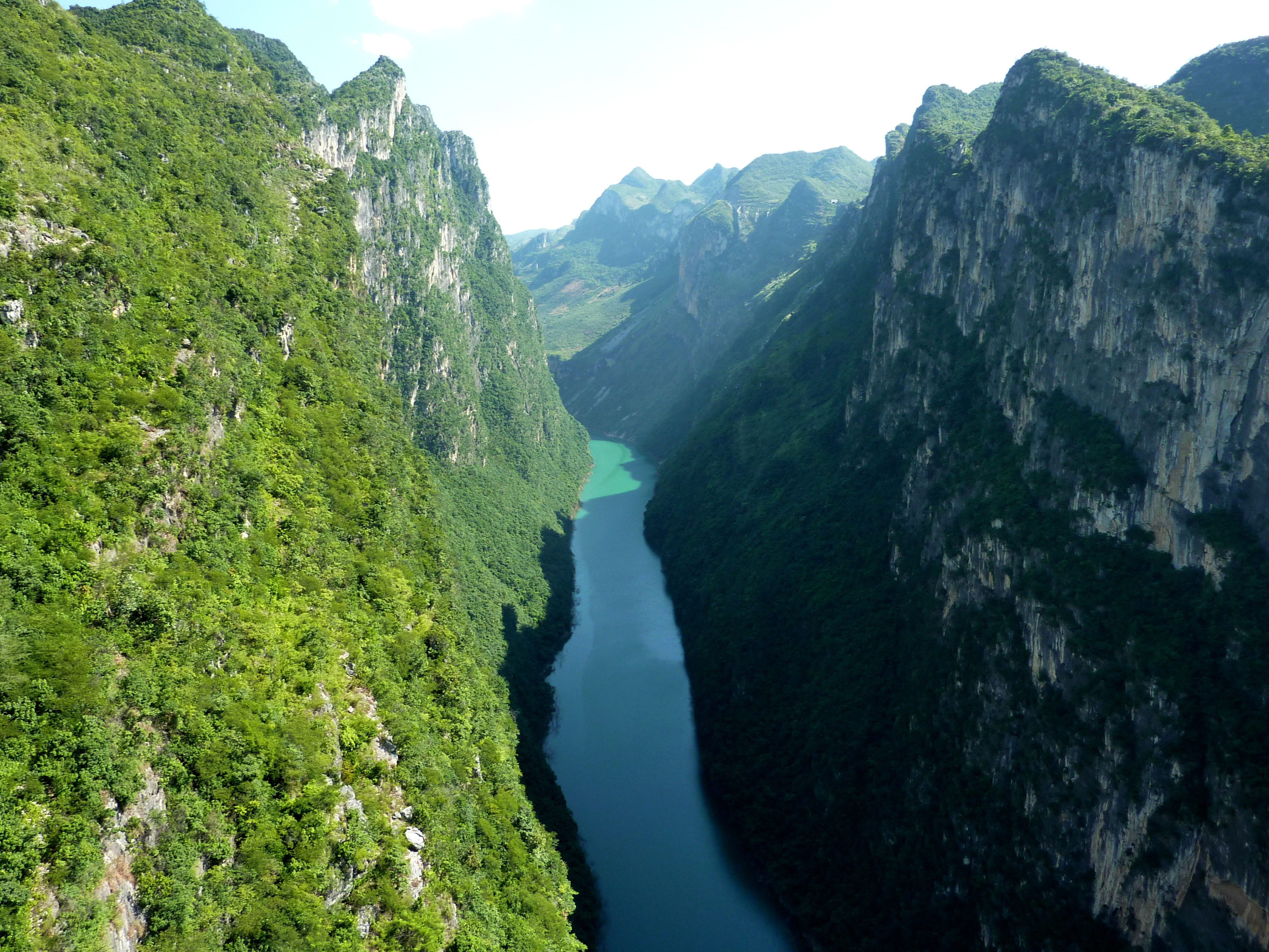 The Beipanjiang Suspension Road Bridge in Guizhou province, China